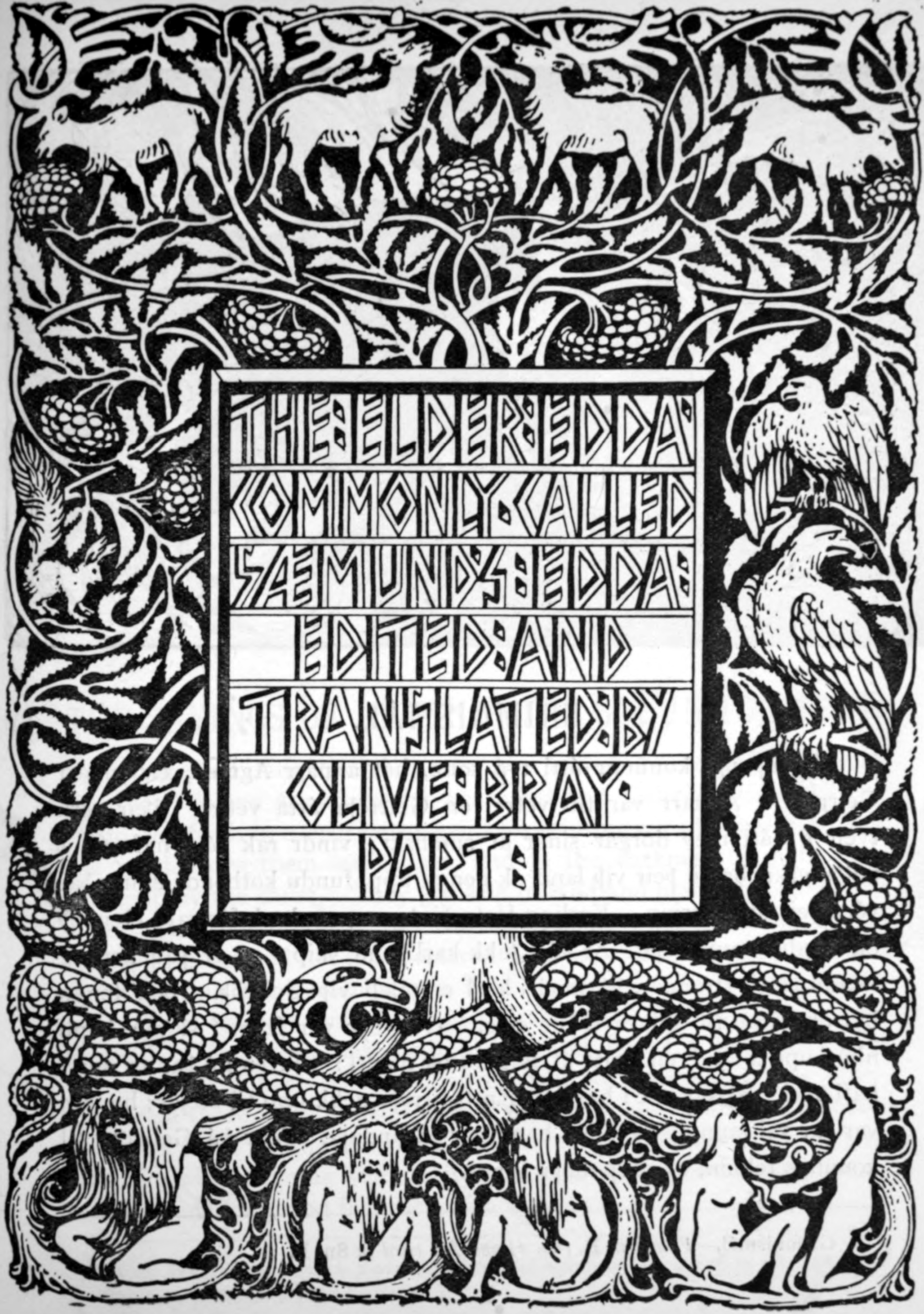 The tree Yggdrasill, complete with Ratatoskr, the four stags, Níðhöggr and Veðrfölnir. This is the title page of the book. The list of illustrations in the front matter of the book gives this one the title Title: The Tree of Yggdrasil.